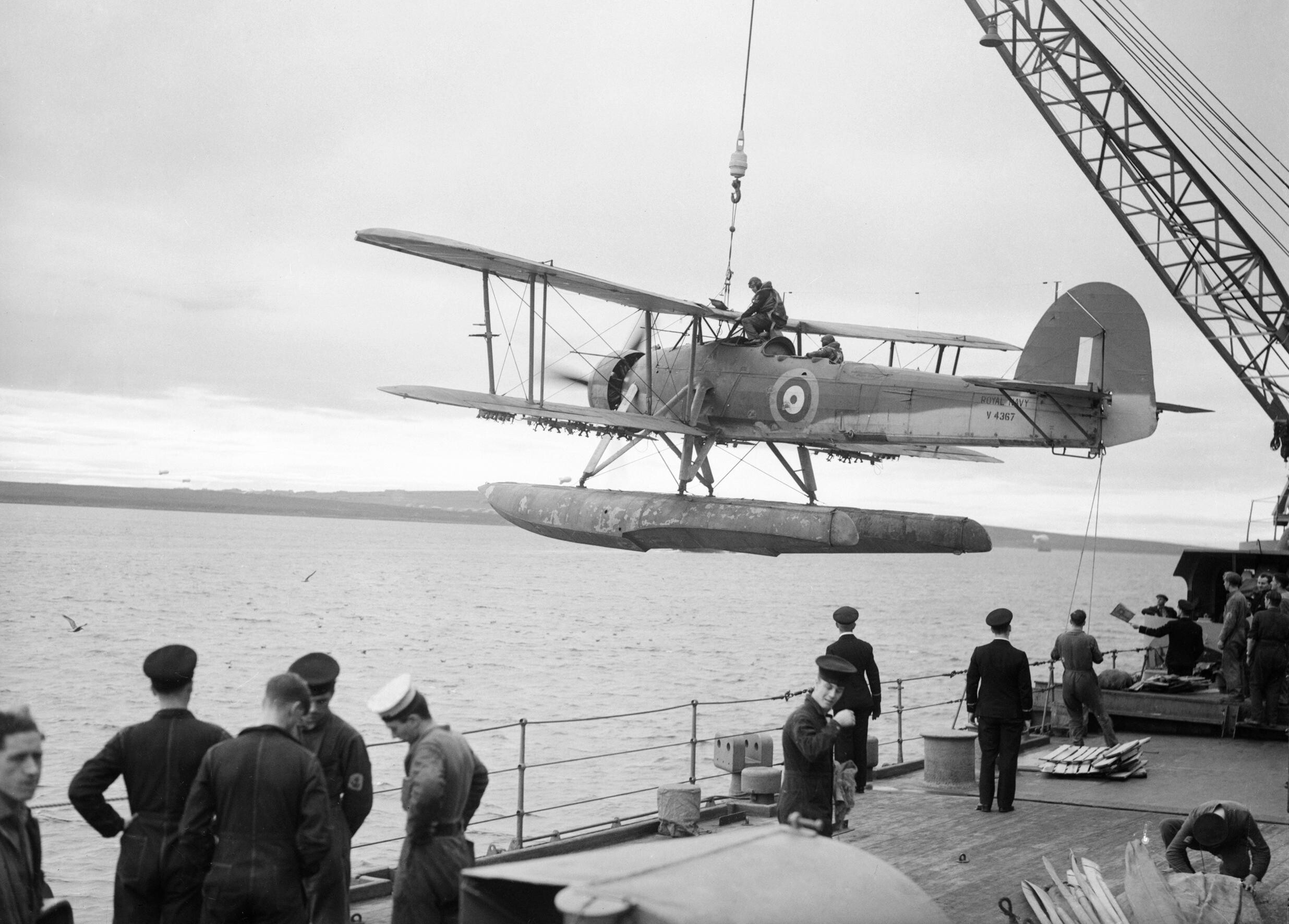 A Fairey Swordfish being hoisted aboard HMS MALAYA, October 1941. After a reconnaissance flight, a Fairey Swordfish sea plane returns to HMS MALAYA and is hoisted in board.